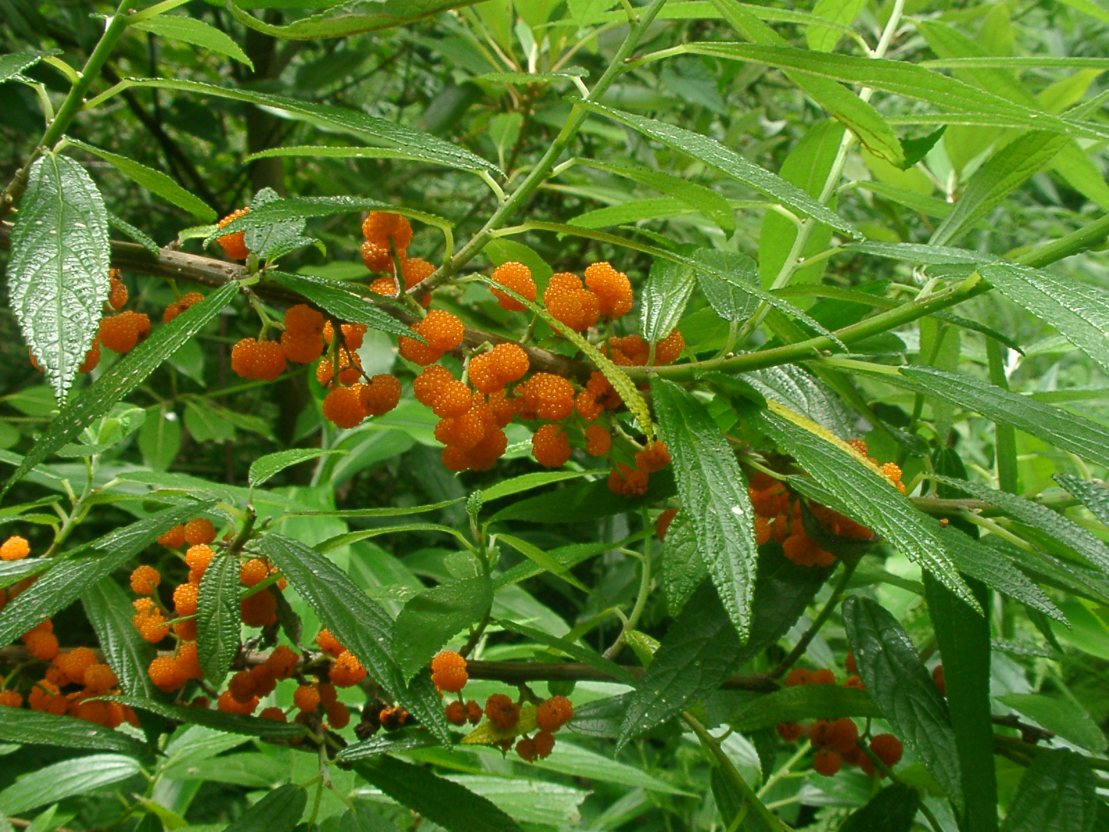 Debregeasia edulis 's fruit. at Manazuru-machi, Japan.